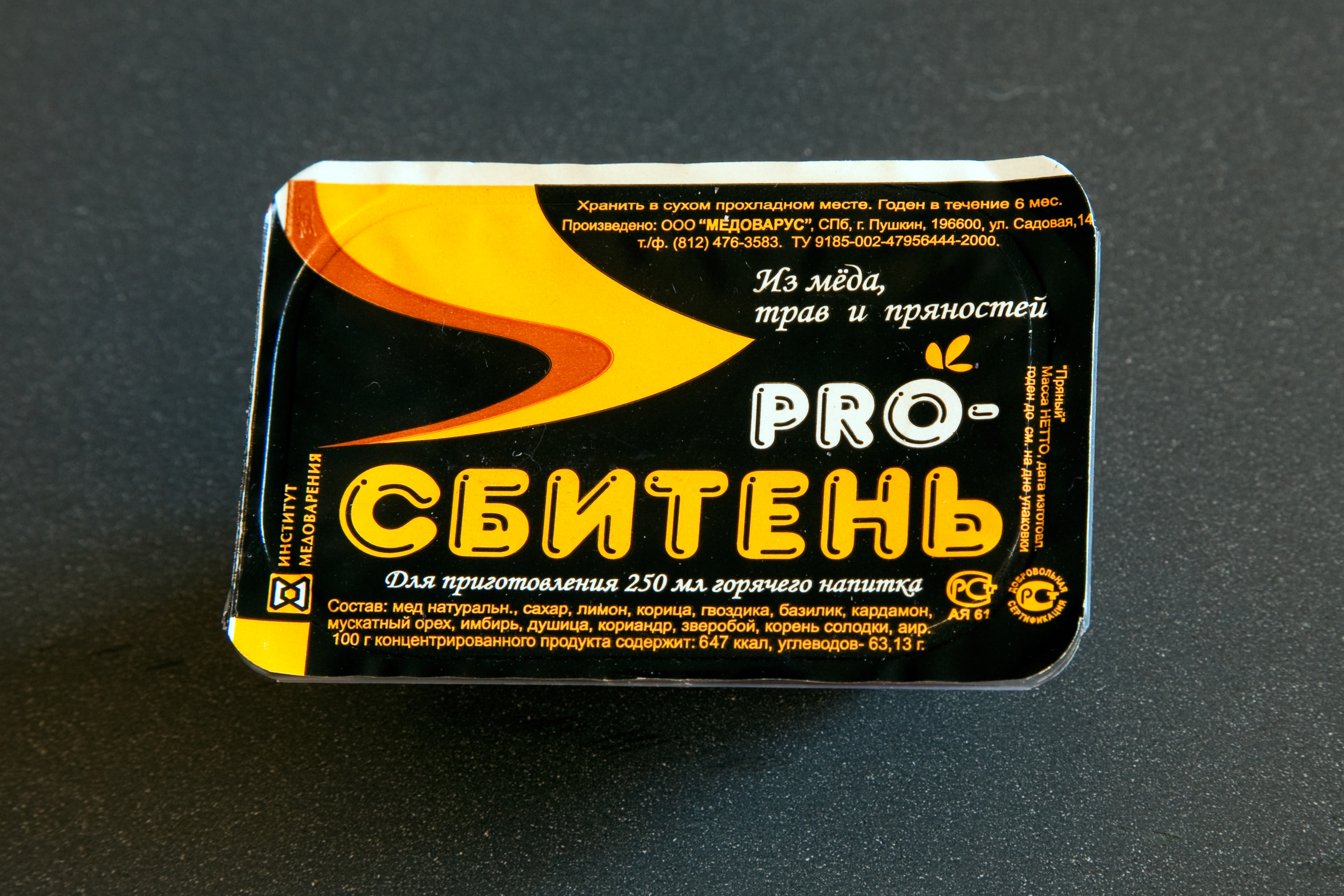 Sbiten